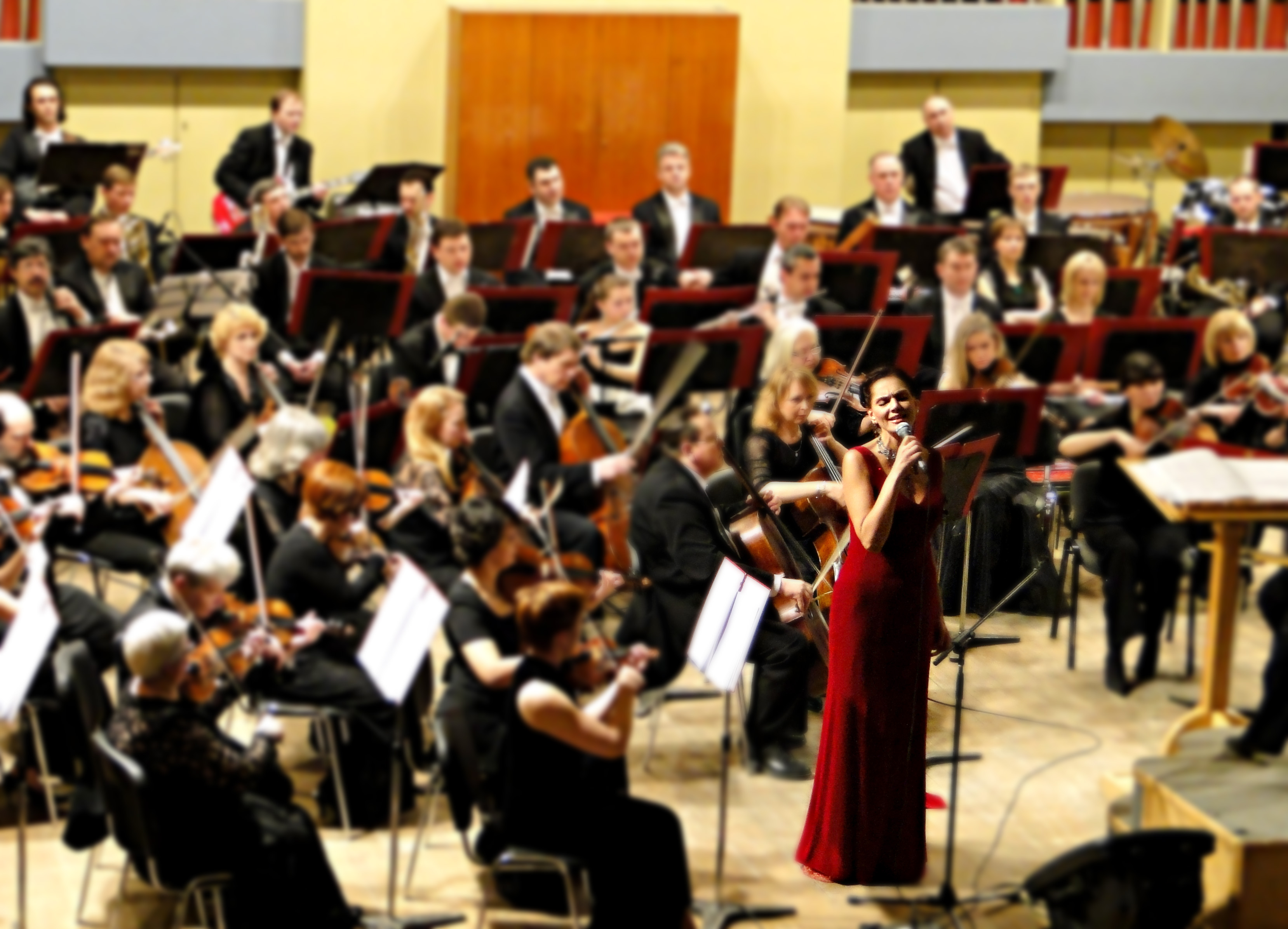 With Simphonical orchestra, conducted by Murad Annamamedov